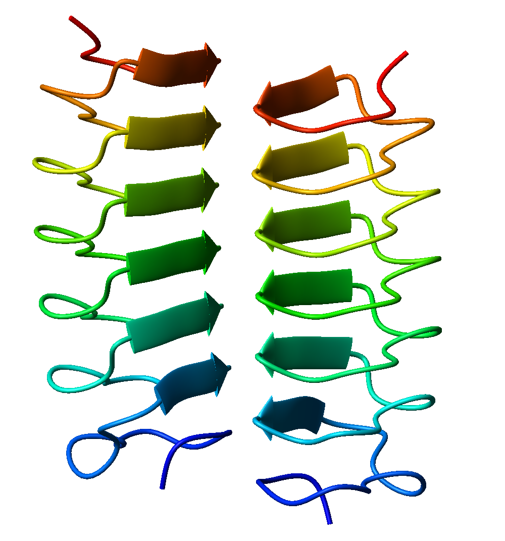 Right-handed beta helix antifreeze protein. Made with MOLMOL.